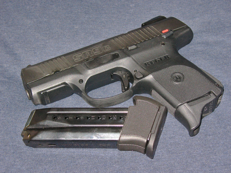 SR9c compact 9mm pistol with factory full-sized magazine and grip adapter.